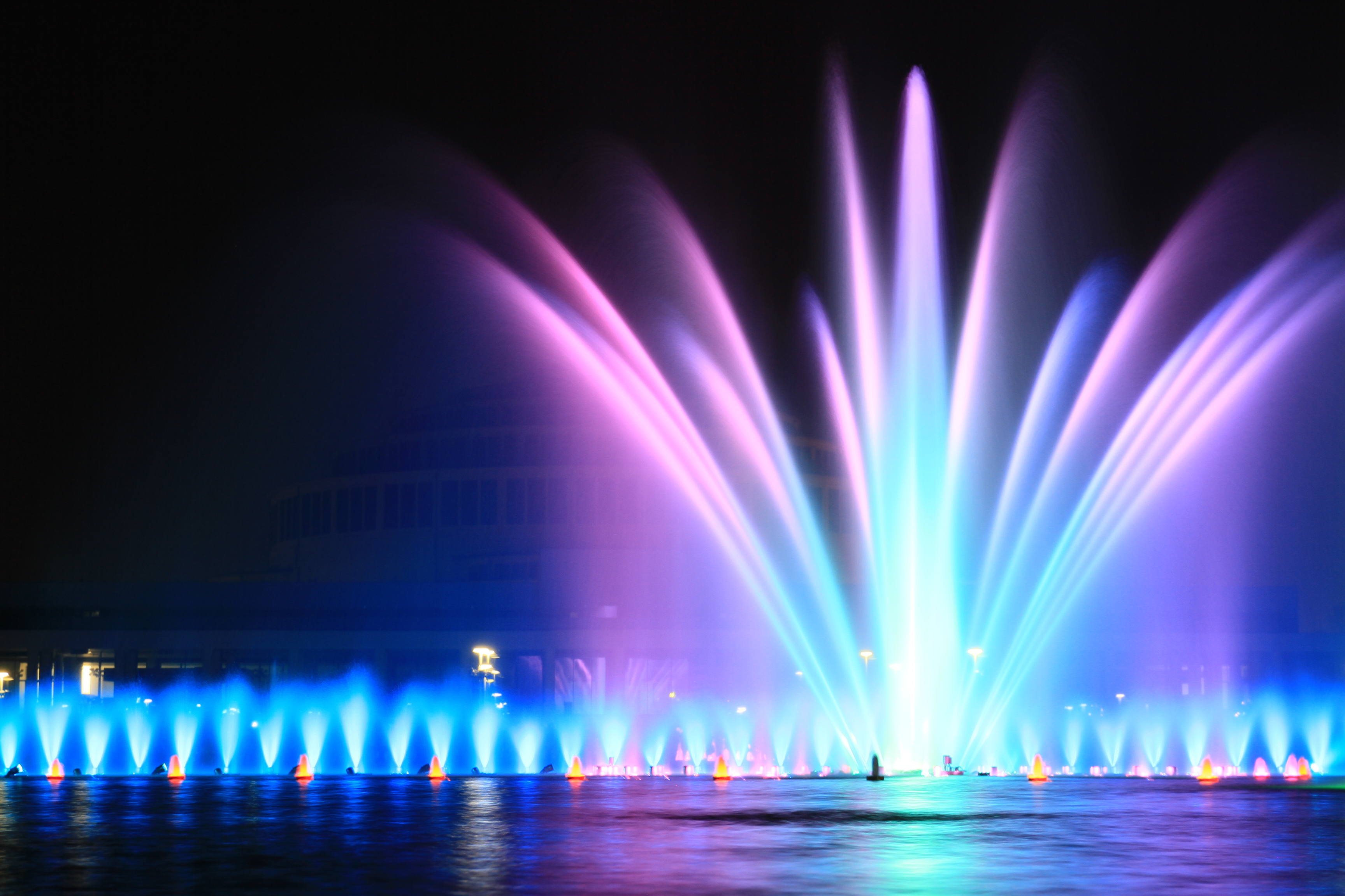 Fountain in Hala Ludowa, Wrocław